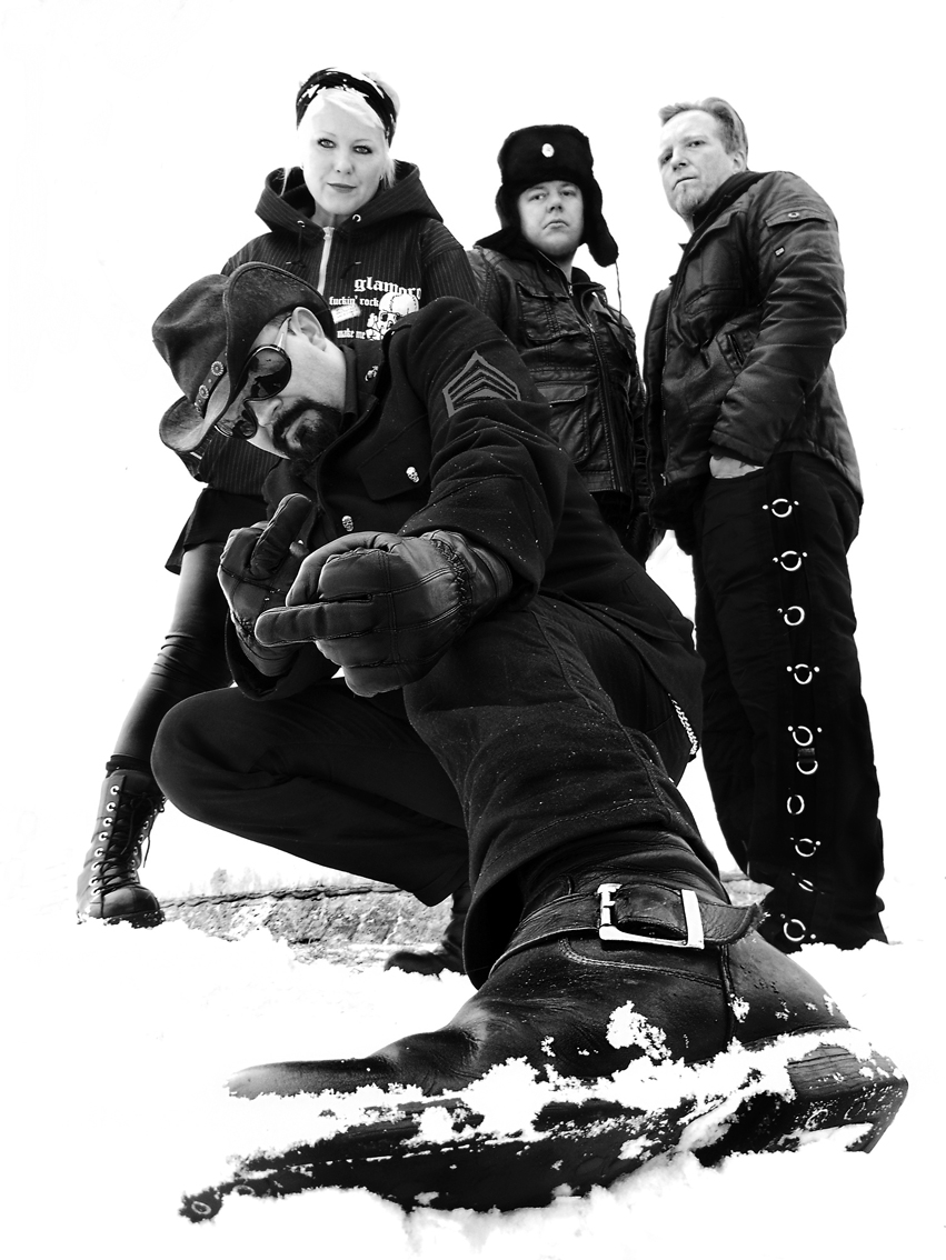 The True Magenta Promo picture 2012